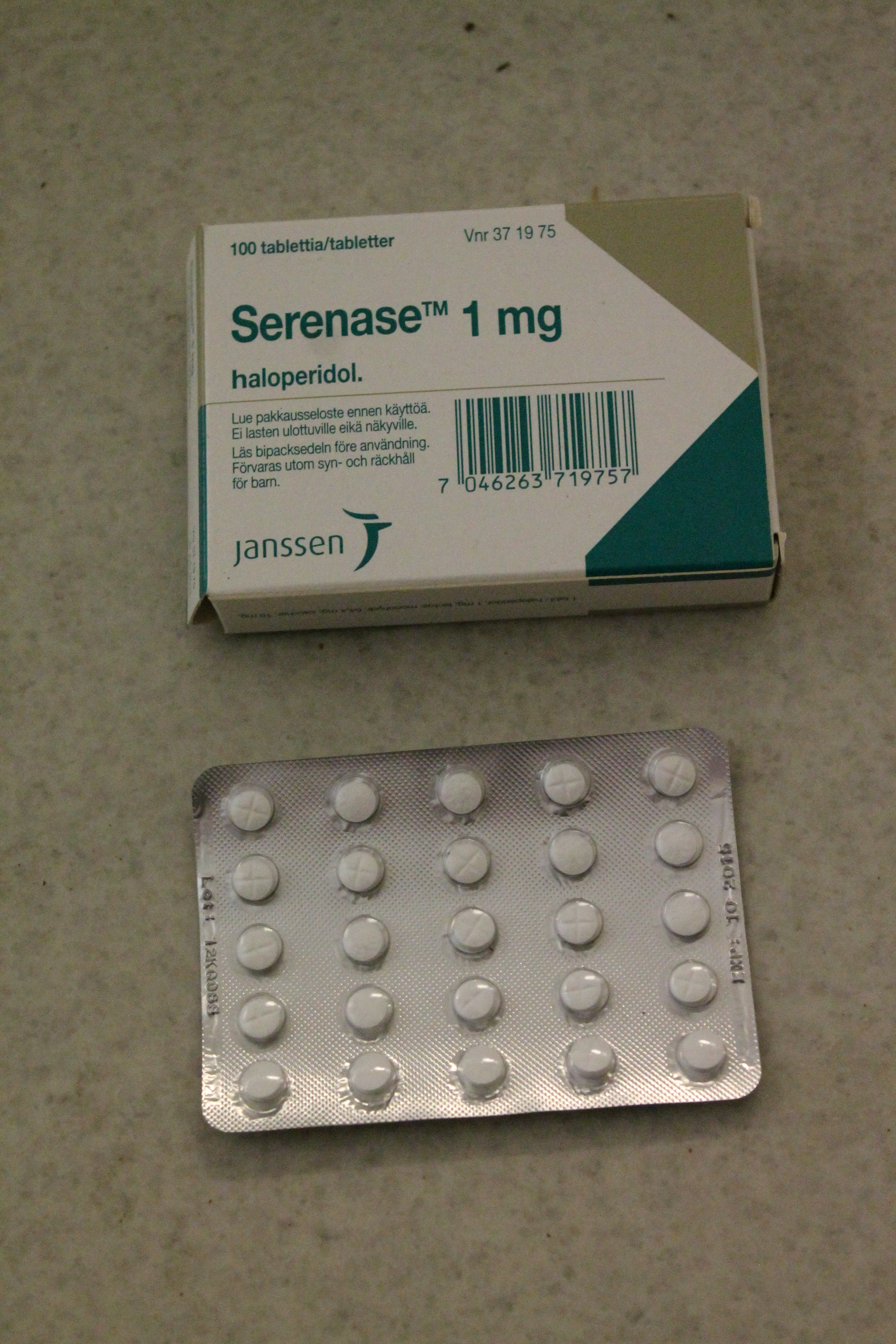 Serenase 1mg (haloperidol) -tablets